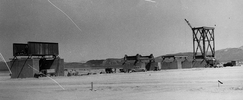 Test Site construction workers erect various types of bridge structures at Frenchman Flat, for the 37-kiloton Priscilla test on June 24, 1957.